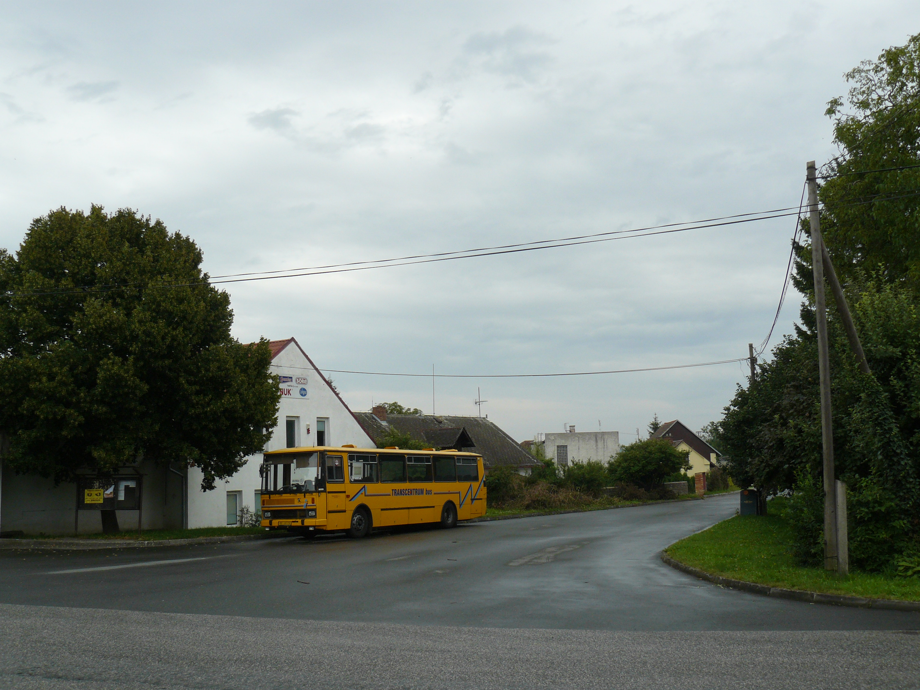 Prodašice - village in Czech Republic